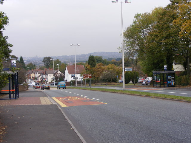 Halesowen Road View The view towards Dudley from Haden Hill, Cradley Heath.